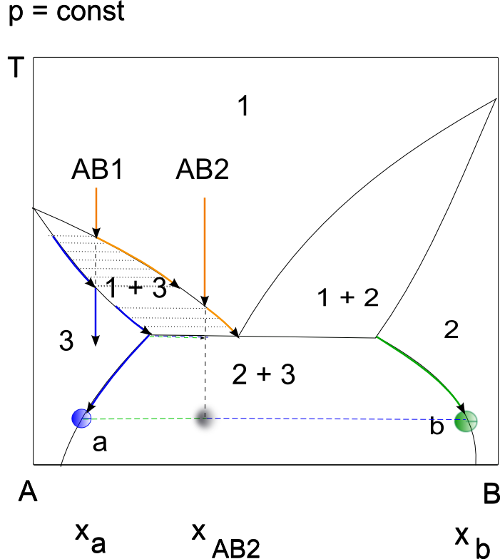 Phase diagrams/ liquid-liquid equilibrium 4b